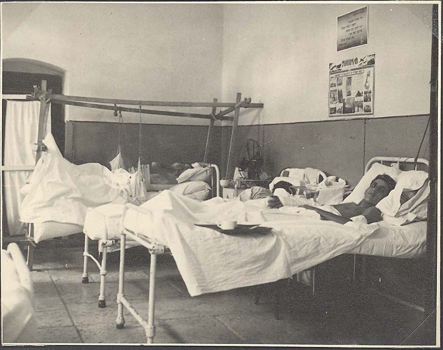 Military hospital 11 (1948) Ziv, Israel Defense Forces